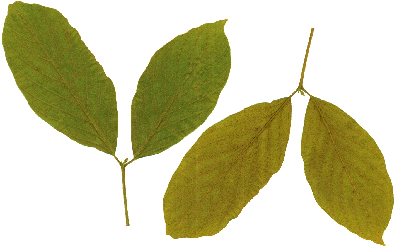 Upper and undersides of the opposite leaves of a Red-hair bush from Inhamitanga forest near Lacerdónia in central Mozambique